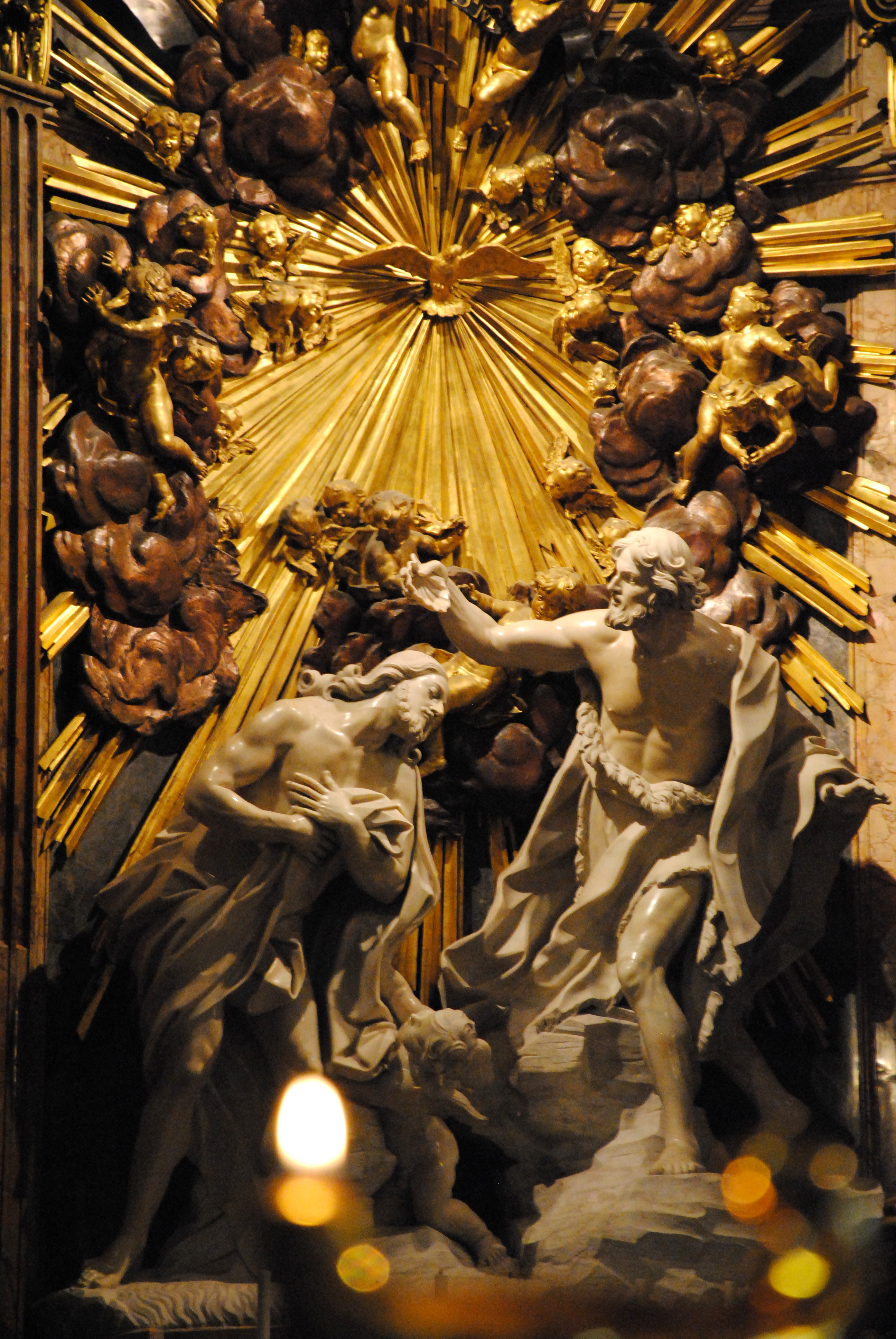 St. Johns co-Cathedral. Valletta, Malta